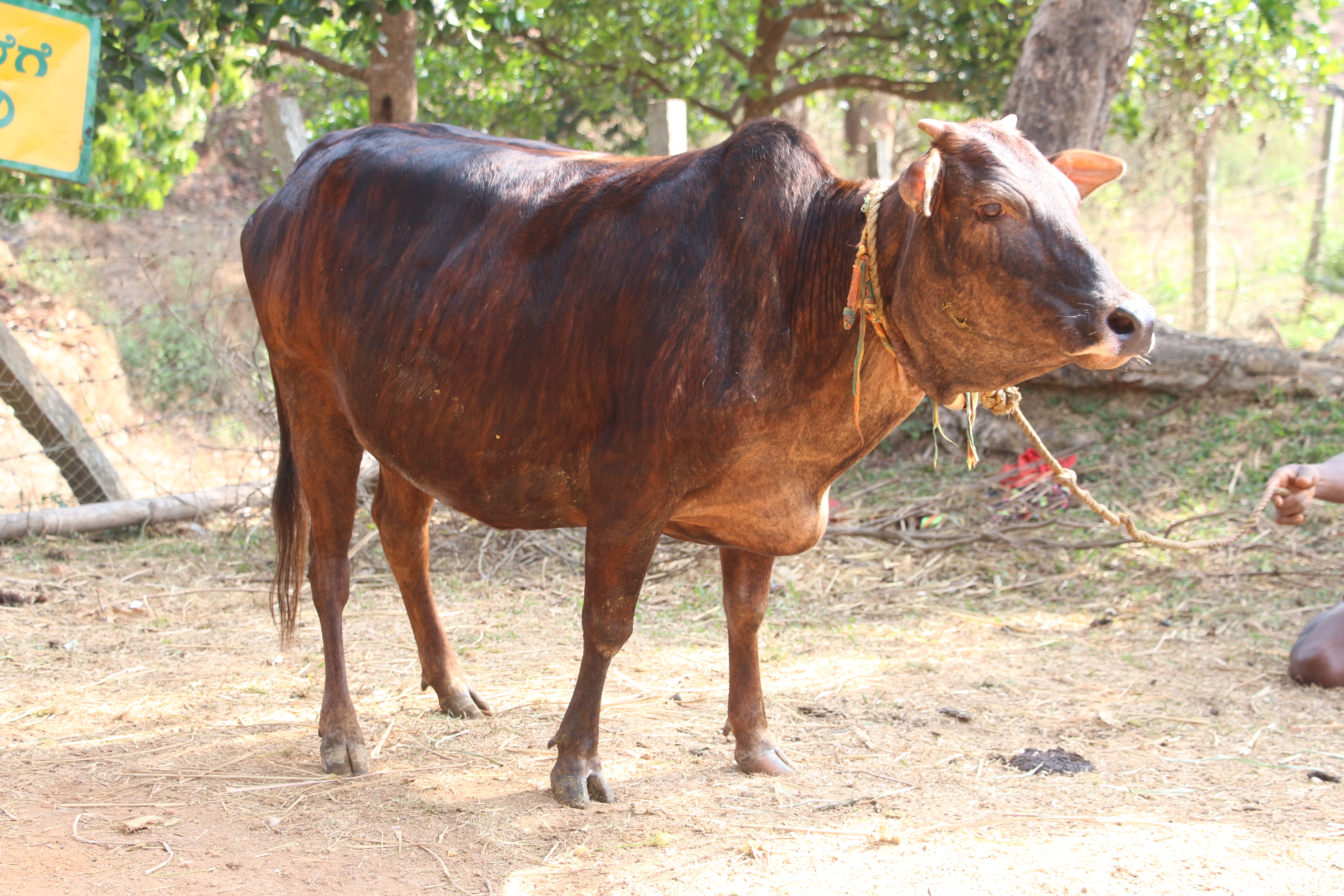 Indian cow breed Malenadu Gidda ಕನ್ನಡ: ಭಾರತೀಯ ಗೋತಳಿ ಮಲೆನಾಡು ಗಿಡ್ಡ